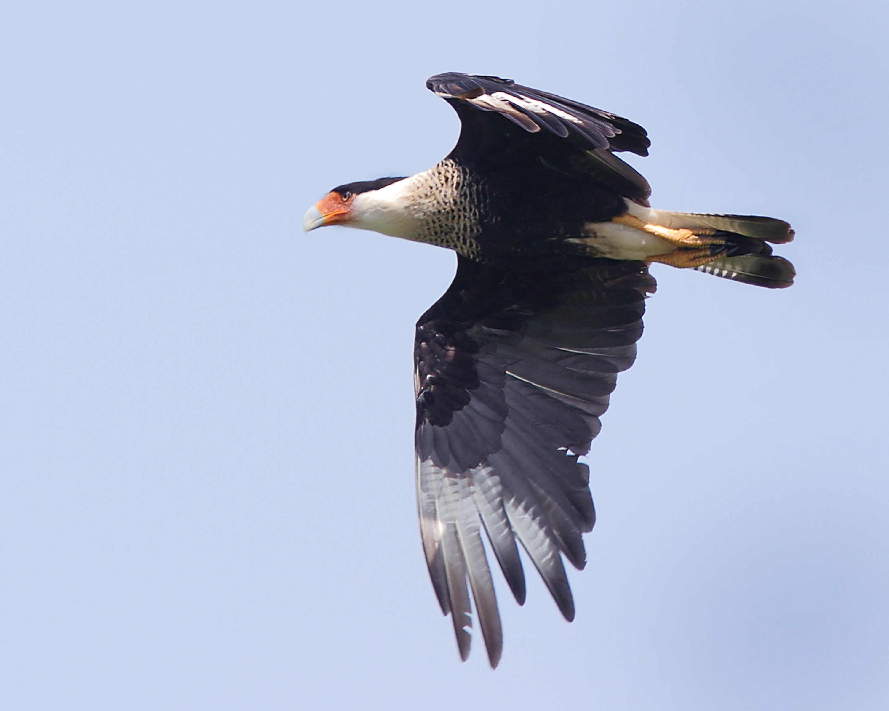 Crested Caracara